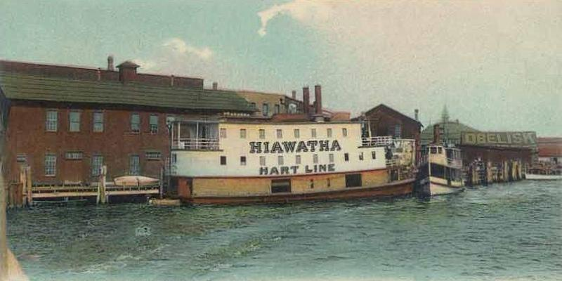 Hiawatha at the Landing, Palatka, Florida. This was the largest and last of the Ocklawaha River steamers. Built by the Hart Line at East Palatka in 1904, it was 89 feet long, 23 feet wide and drew 4 and a half feet of water. It displaced 129 tons. During the 1918-1919 season, Hiawatha hit a snag which punctured the hull. Repairs were planned but never made.